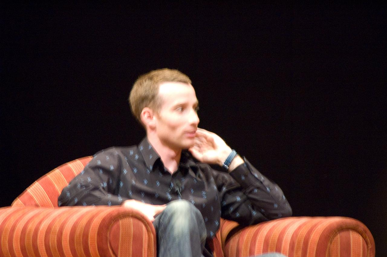 Sam Morgan, founder of New Zealand online auction website TradeMe, at Webstock 2008.